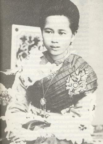 Princess Suddhasininat. Princess consort of King Rama V.